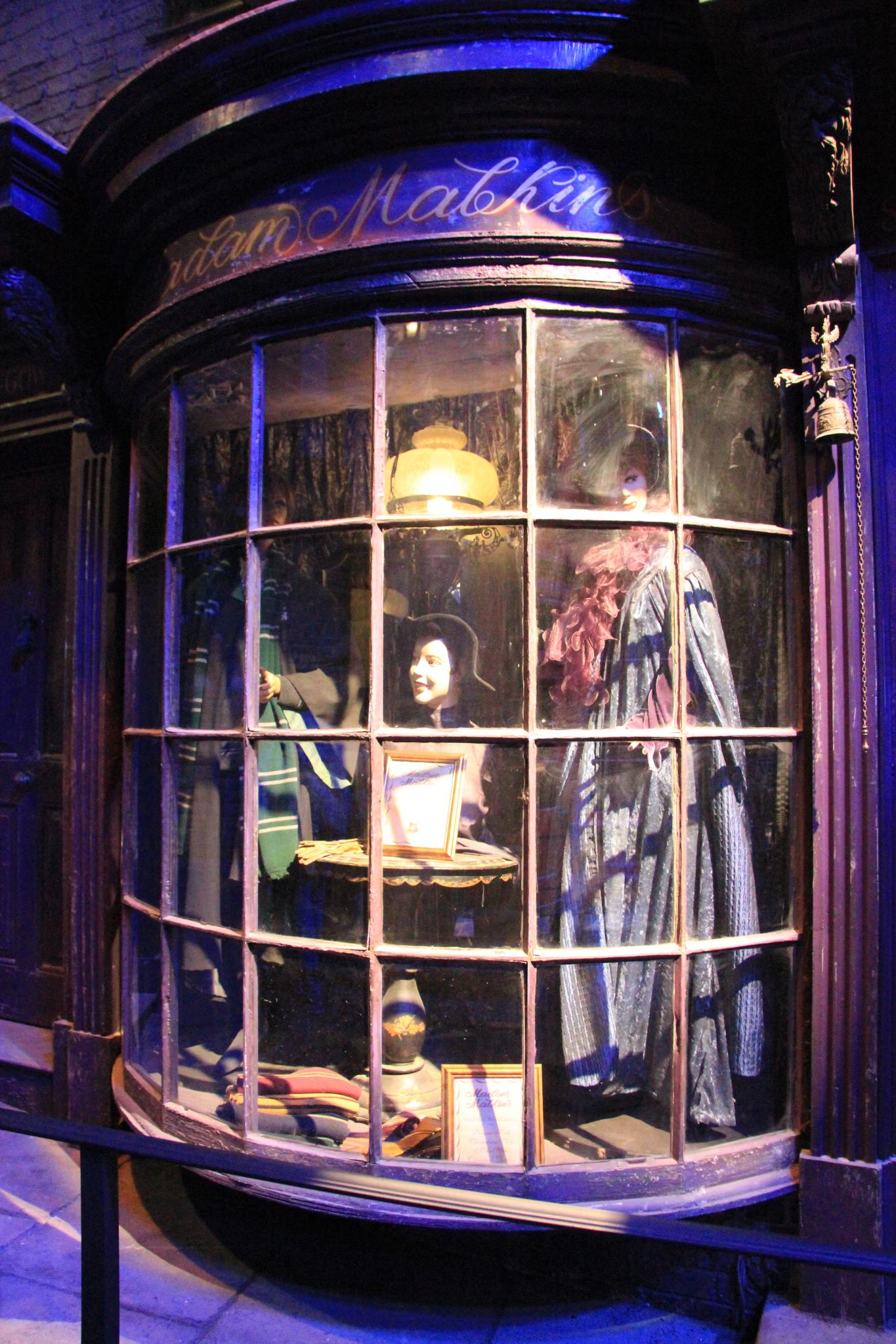 Warner Bros. Studio Tour London: The Making of Harry Potter.